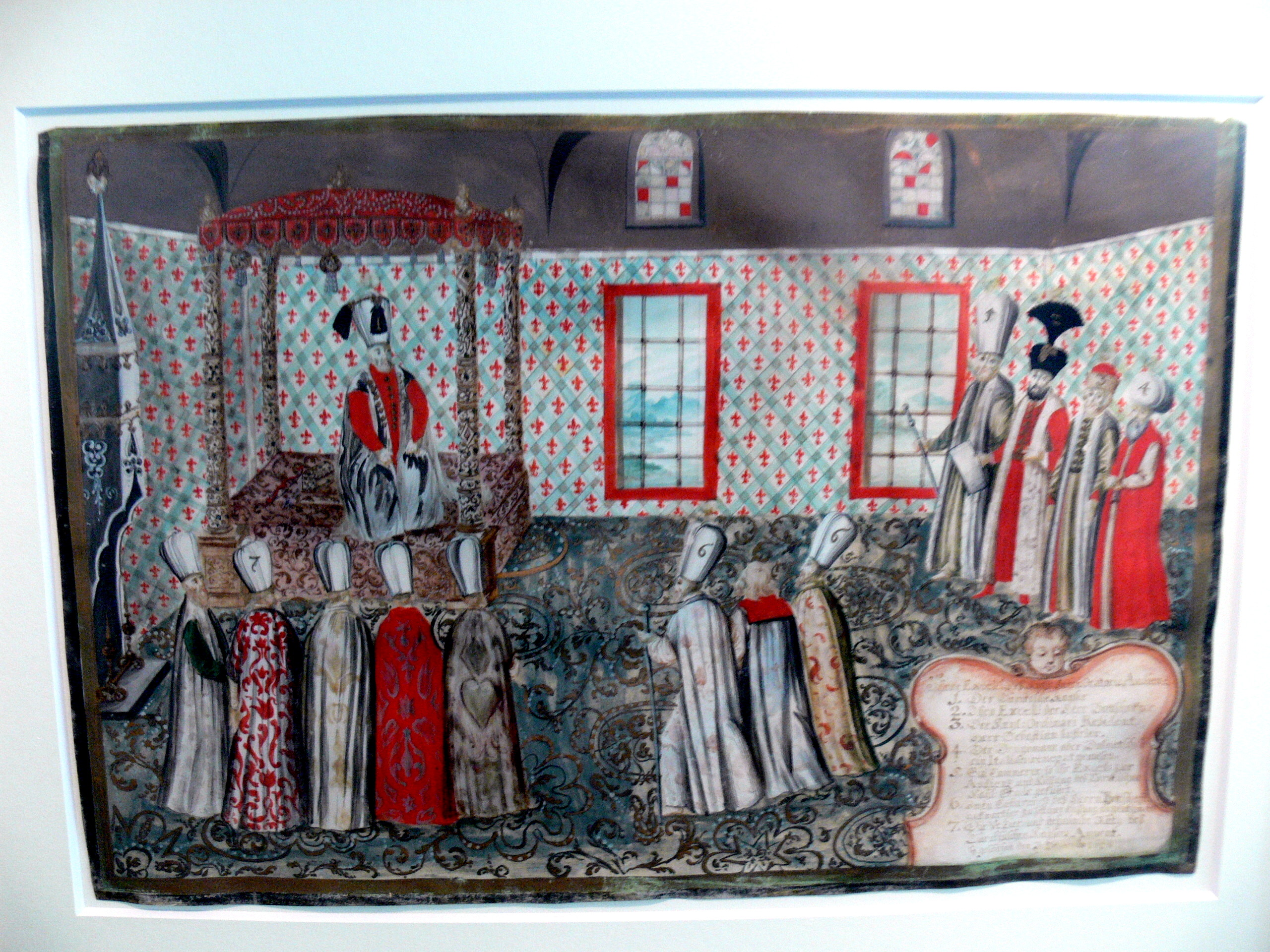 Ottoman sultan meets embassadors ( 1628 ). Gouache by Hans Ludwig von Kurfstein, embassador of the Holy Roman Empire in Istanbul ( City museum, Perchtoldsdorf/Austria ).